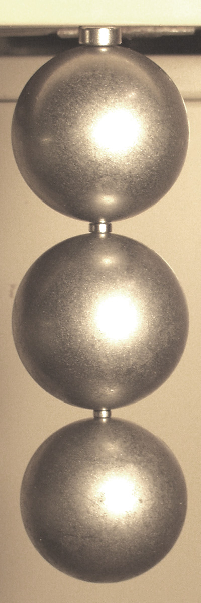 Three solid steel ball bearings (spheres) easily suspended by miniscule neodymium magnets. The lowest sphere is 3.63cm in diameter (196.1g), and is being held up by a NIB disk magnet 4mm in diameter by 1.5mm thick (0.143g). Such magnets can easily lift thousands of times their own mass.